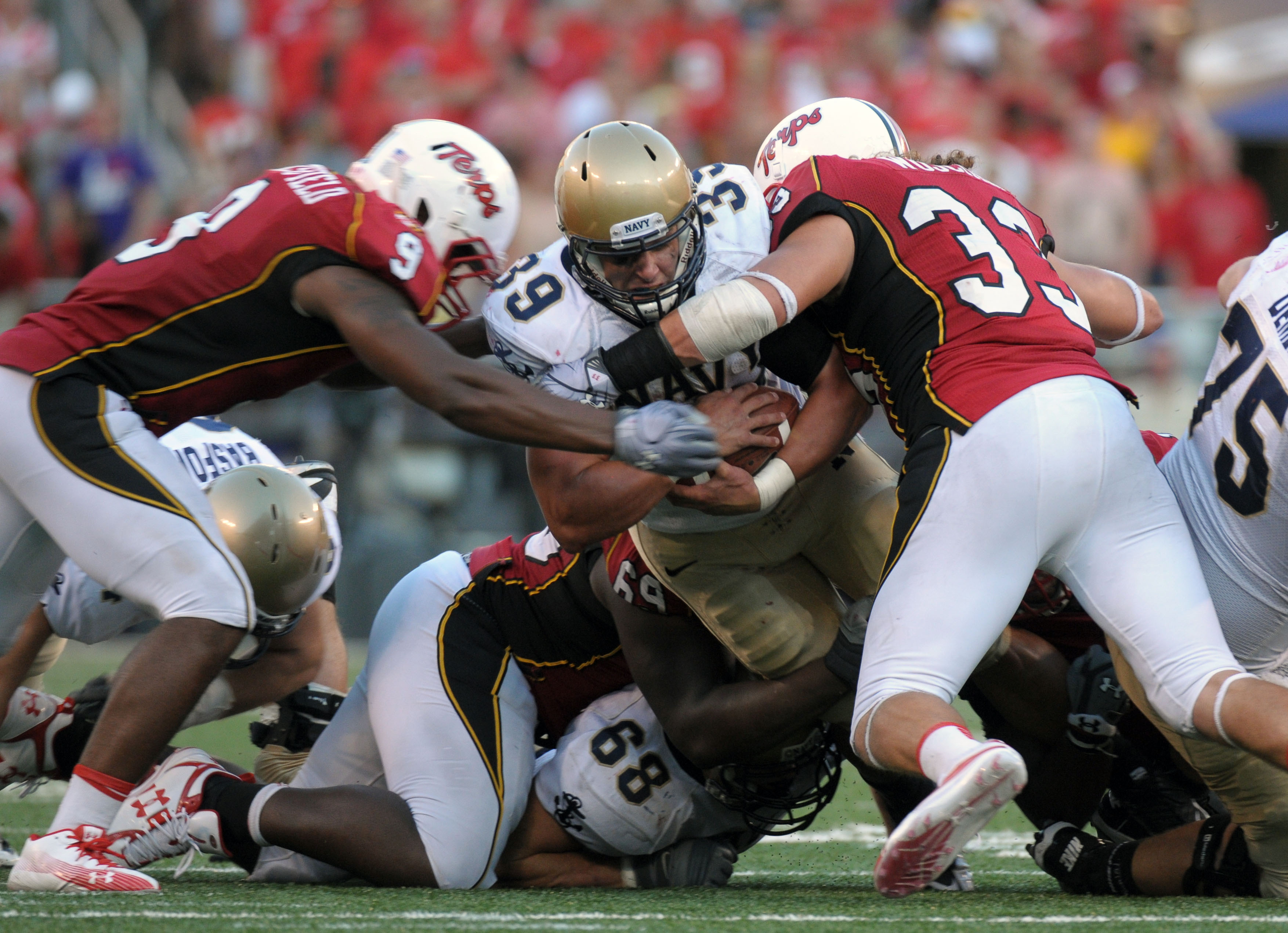 BALTIMORE (Sept. 6, 2010) U.S. Naval Academy fullback Alexander Teich (#39) powers through University of Maryland linebackers Demetrius Hartsfield, left, (#9) and Alex Wujciak (#33) for a first down. The Midshipmen lost the season opener to the University of Maryland Terrapins 17 to 14. (U.S. Navy photo by Mass Communication Specialist 2nd Class Jason Graham/Released)